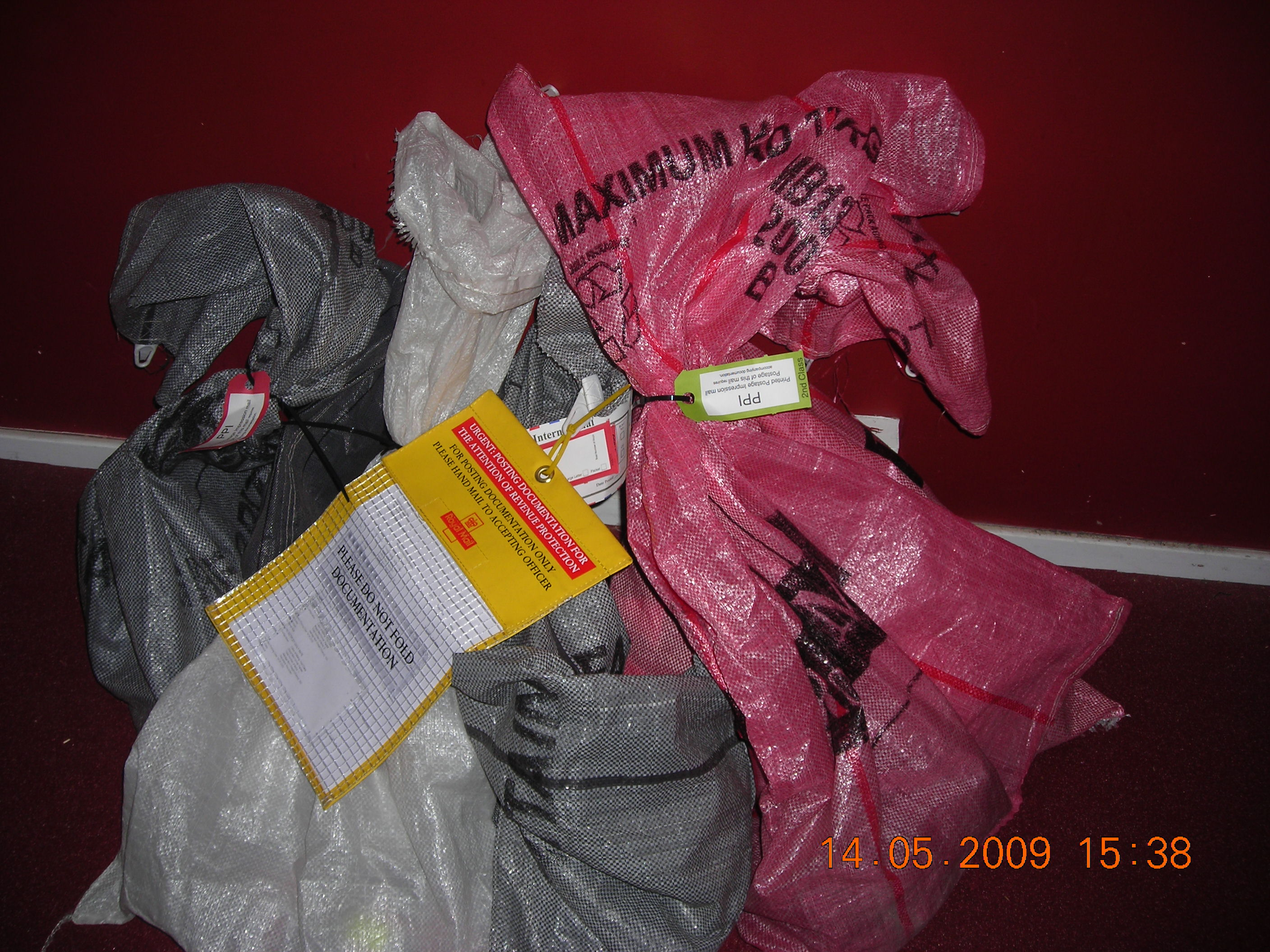 a pile of mail sacks